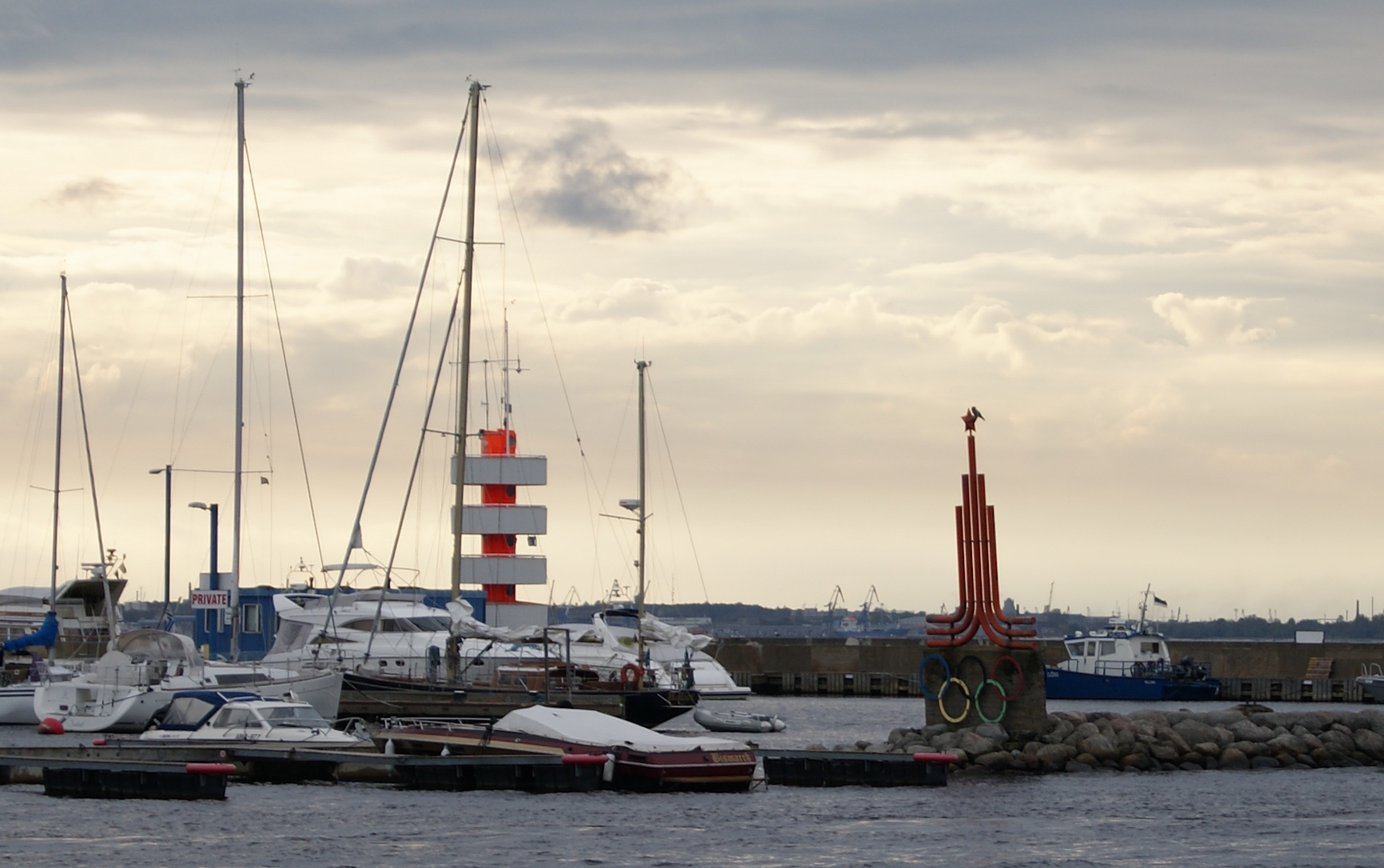 Olympic Games monument in Tallinn